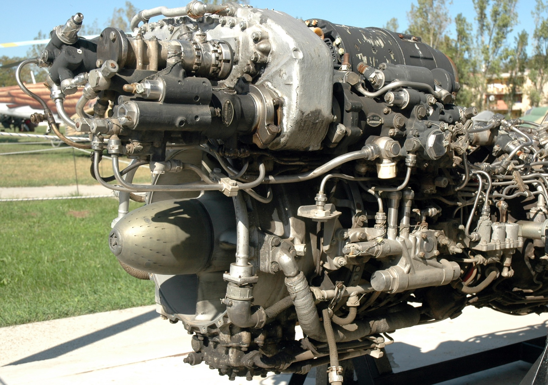 Isotov TV2-117A turboshaft engine (displayed at the Hungarian Aviation Museum in Szolnok)